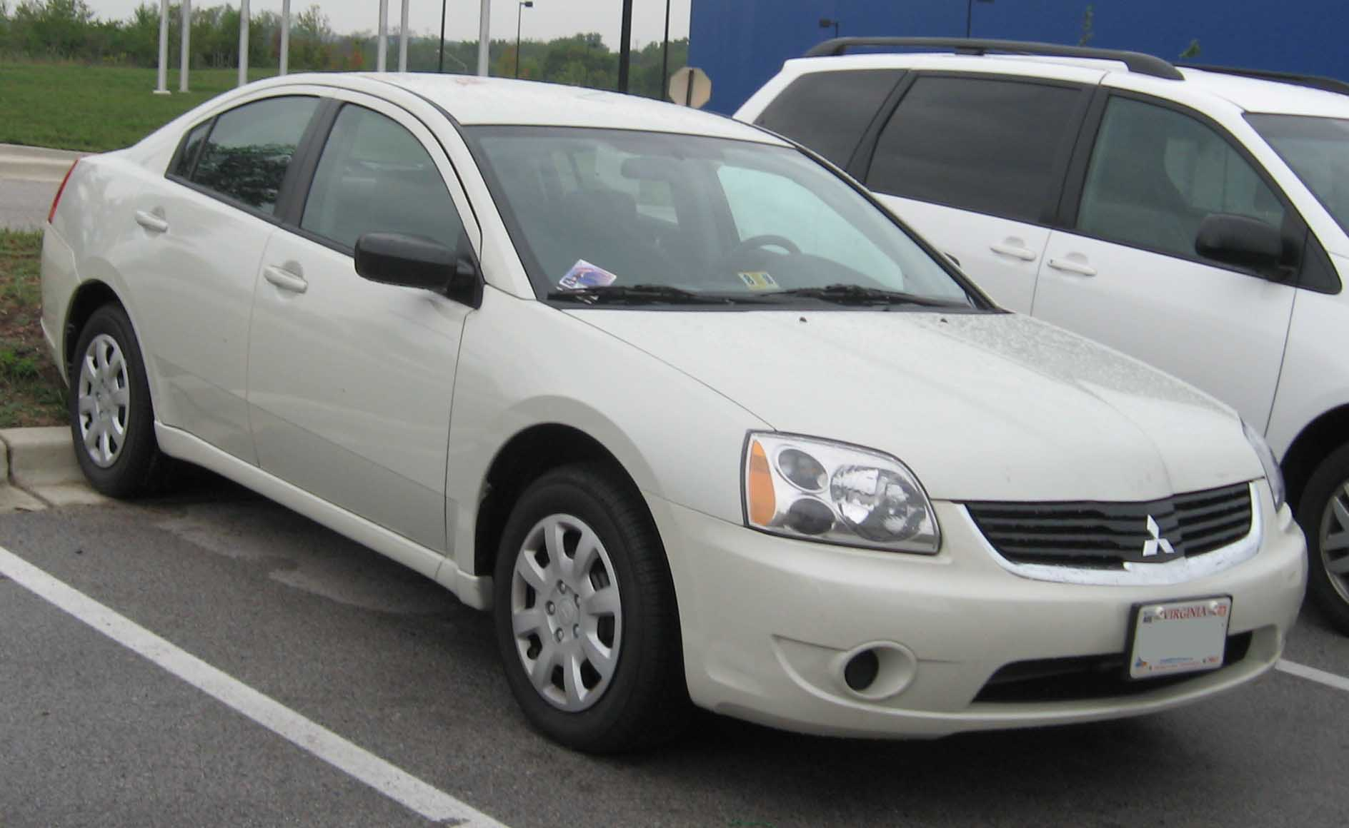 2007 Mitsubishi Galant photographed in College Park, Maryland, USA.